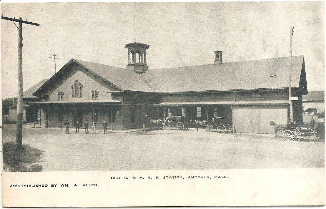 Early undivided back postcard of Andover station